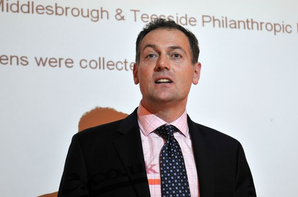 Andy Preston speaking at a charity event in Middlesbrough